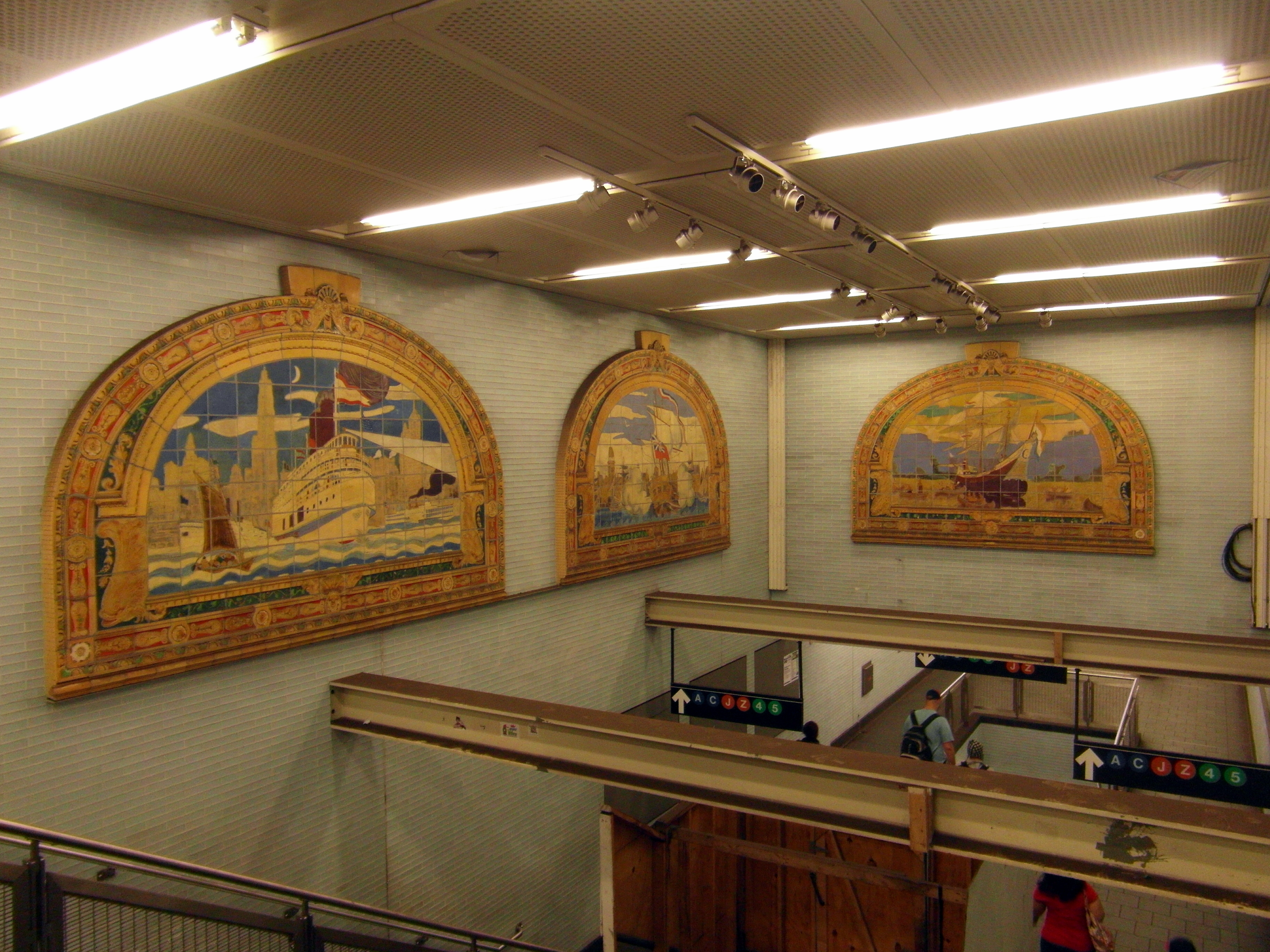 Baoradway/Nassau Street, New York. The 1913 Marine Grill murals by Frederick Dana Marsh, now installed in the Fulton/Broadway/Nassau complex, were originally in a basement restaurant of the McAlpin Hotel on Herald Square but were re-intsalled here in 2000 when the hotel was converted to apartments.